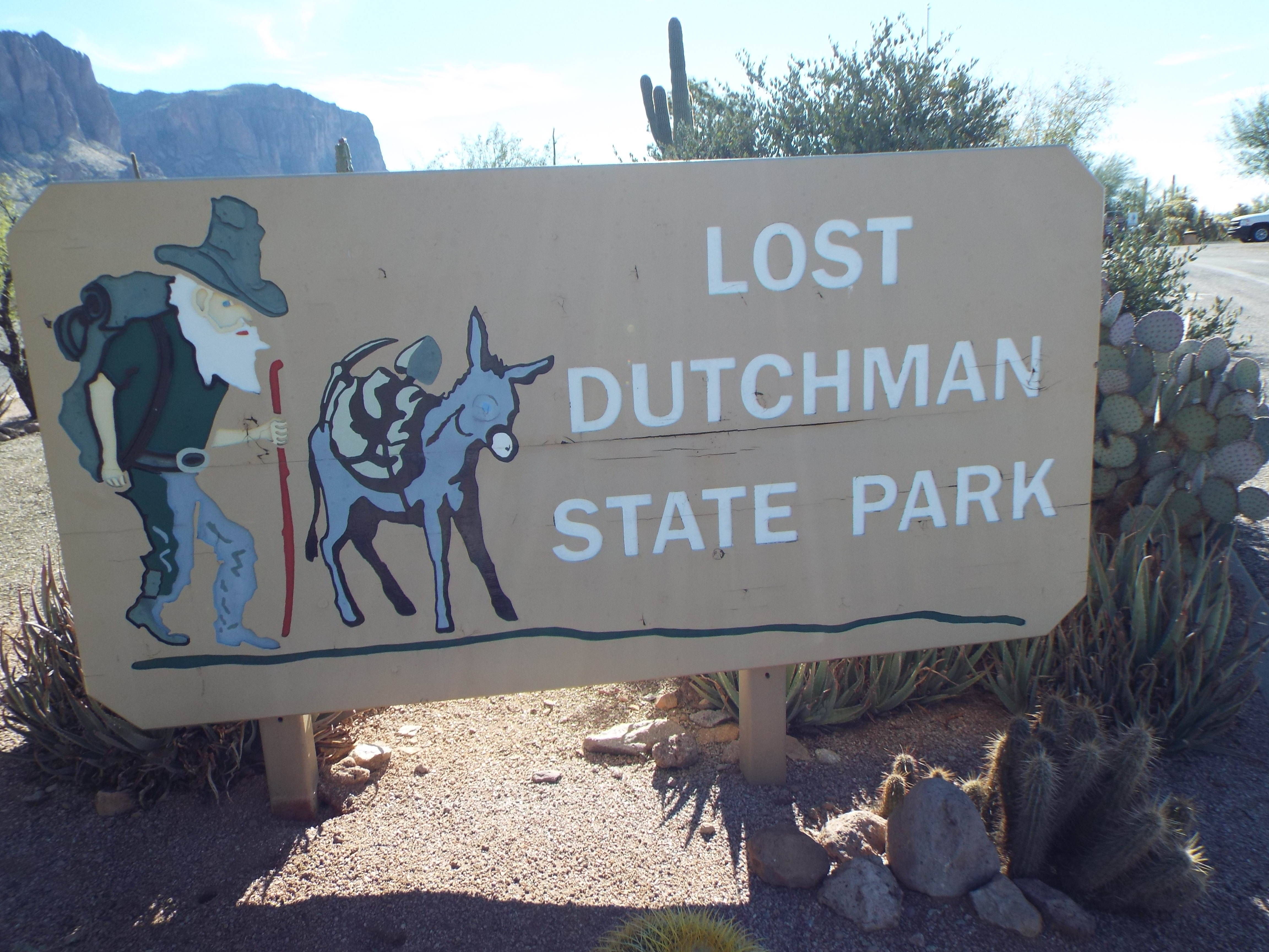 Entrance to the Lost Dutchman State Park located at 6109 N. Apache Junction, Az.